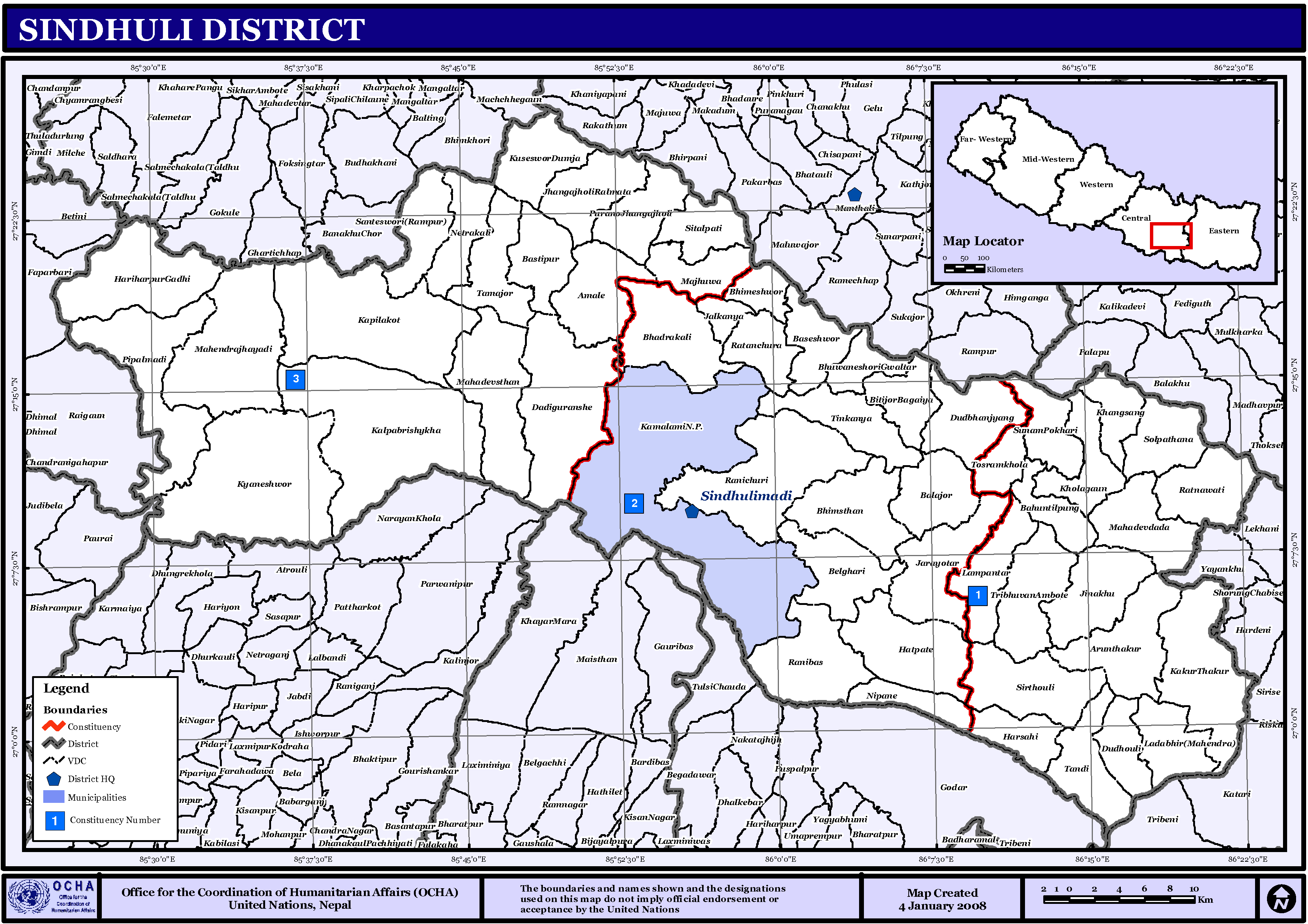 Map displaying Village Development Committees in Sindhuli District, Nepal